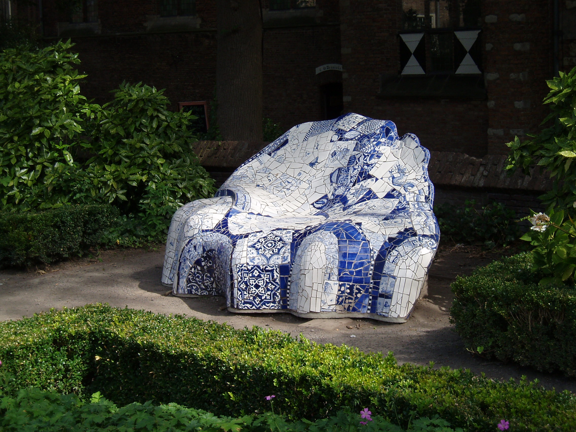 Bench Hommage aan Gaudi (1988) made by Chris Dagradi, Delft - Prinsenhof in the Netherlands